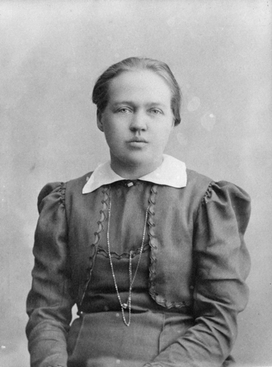 Photograph of the Finnish politician Hilma Räsänen (1877–1955).